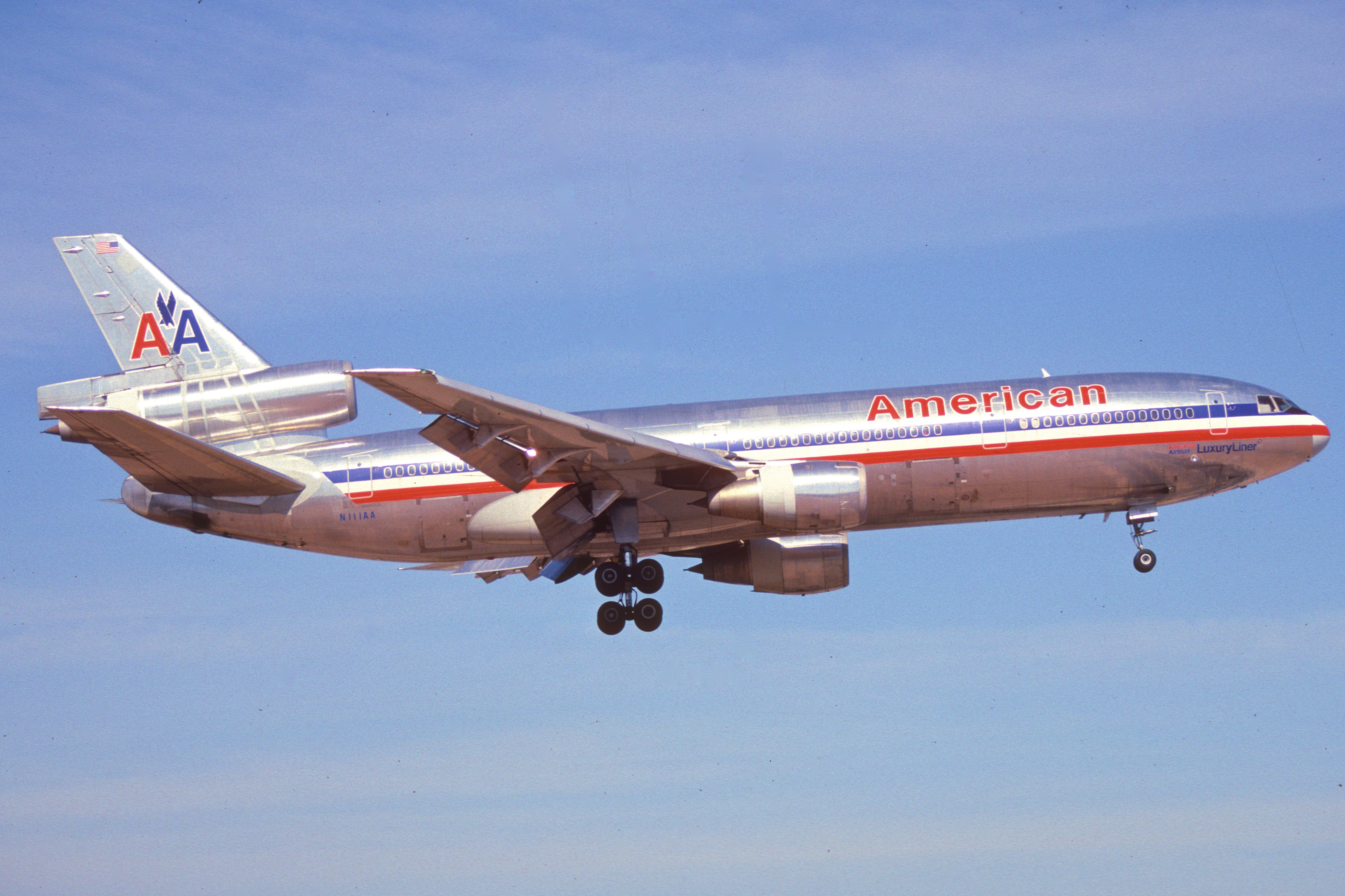 An American Airlines McDonnell Douglas DC-10 landing in May 1985